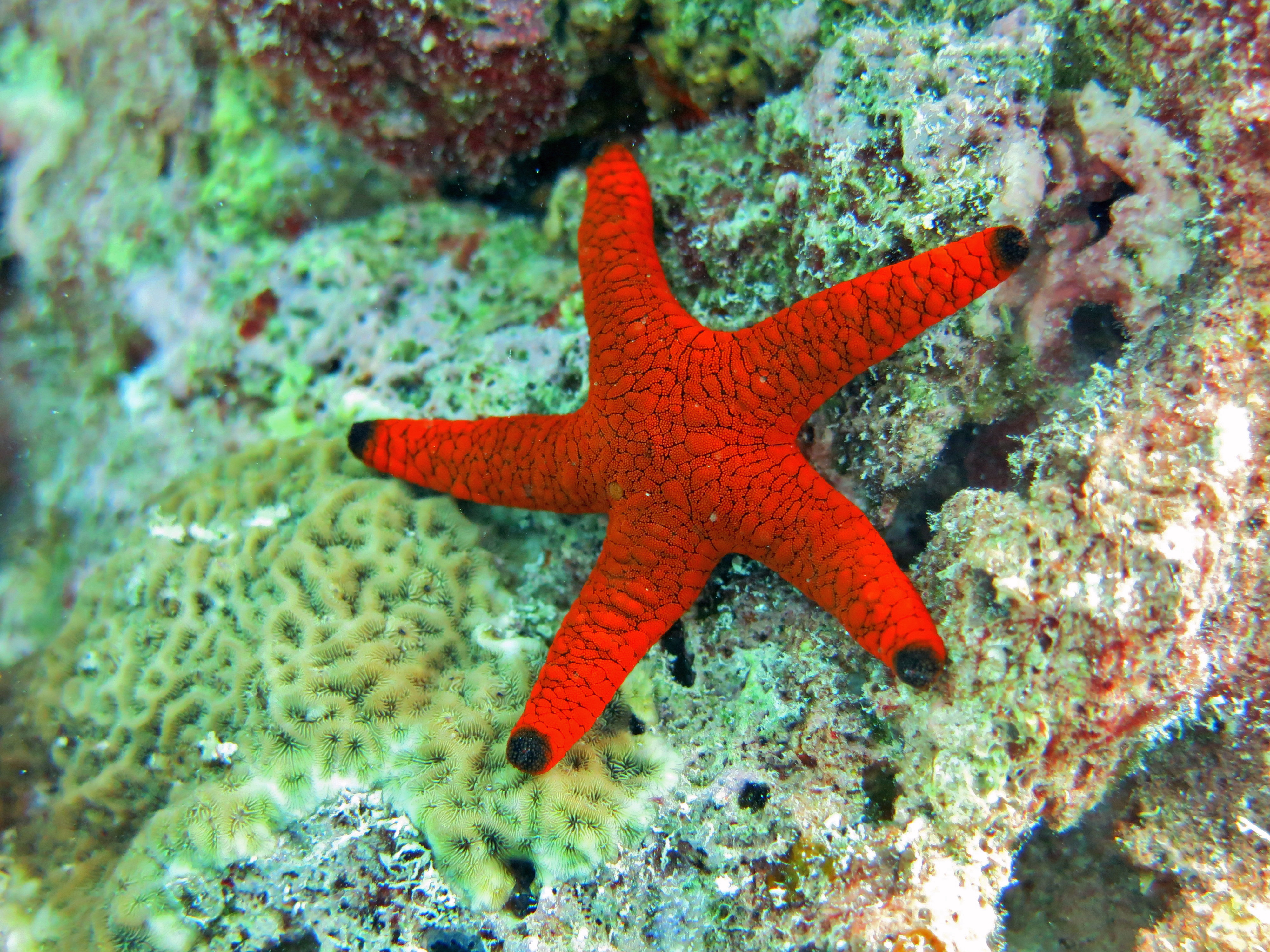 An indian red sea star (Fromia indica), in Maldives (Landaagiraavaru, Baa atoll). Valued image This image has been assessed under the valued image criteria and is considered the most valued image on Commons within the scope: Fromia indica (Indian Sea Star). You can see its nomination here. Quality image This image has been assessed using the Quality image guidelines and is considered a Quality image.